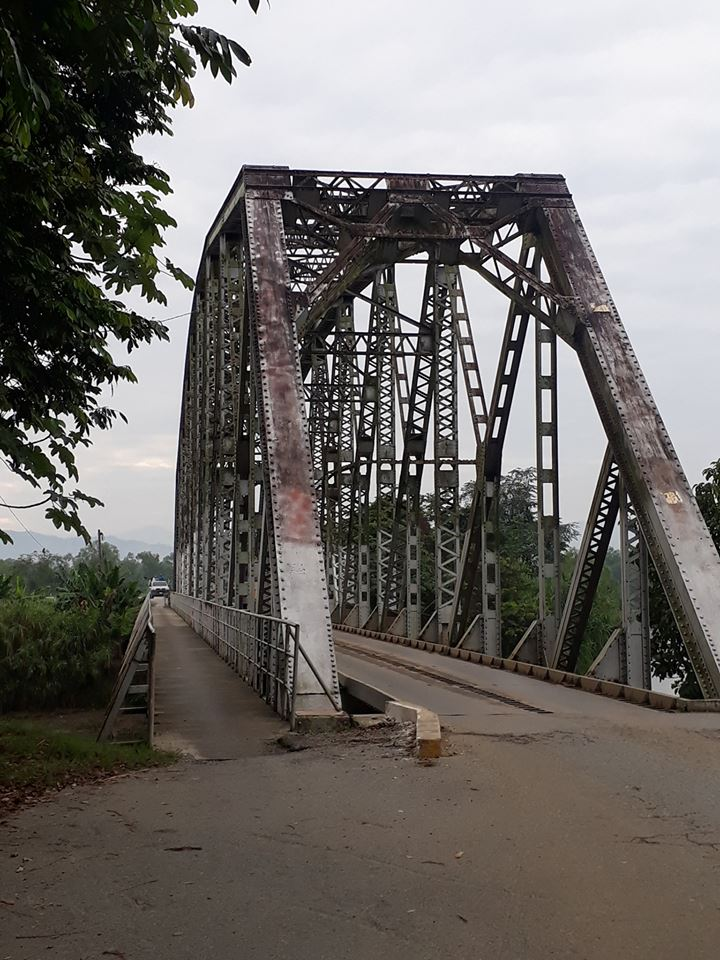 Oneida Bridge